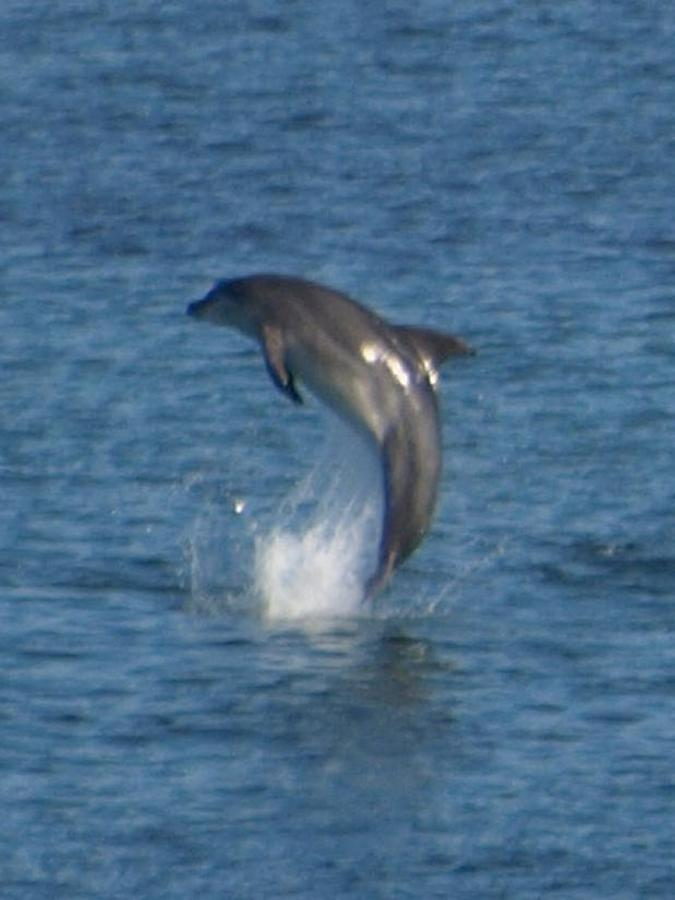 Dolphins leap and play in Sruwaddacon estuary, Broadhaven Bay, Kilcommon, Erris, County Mayo, Ireland. August 2010